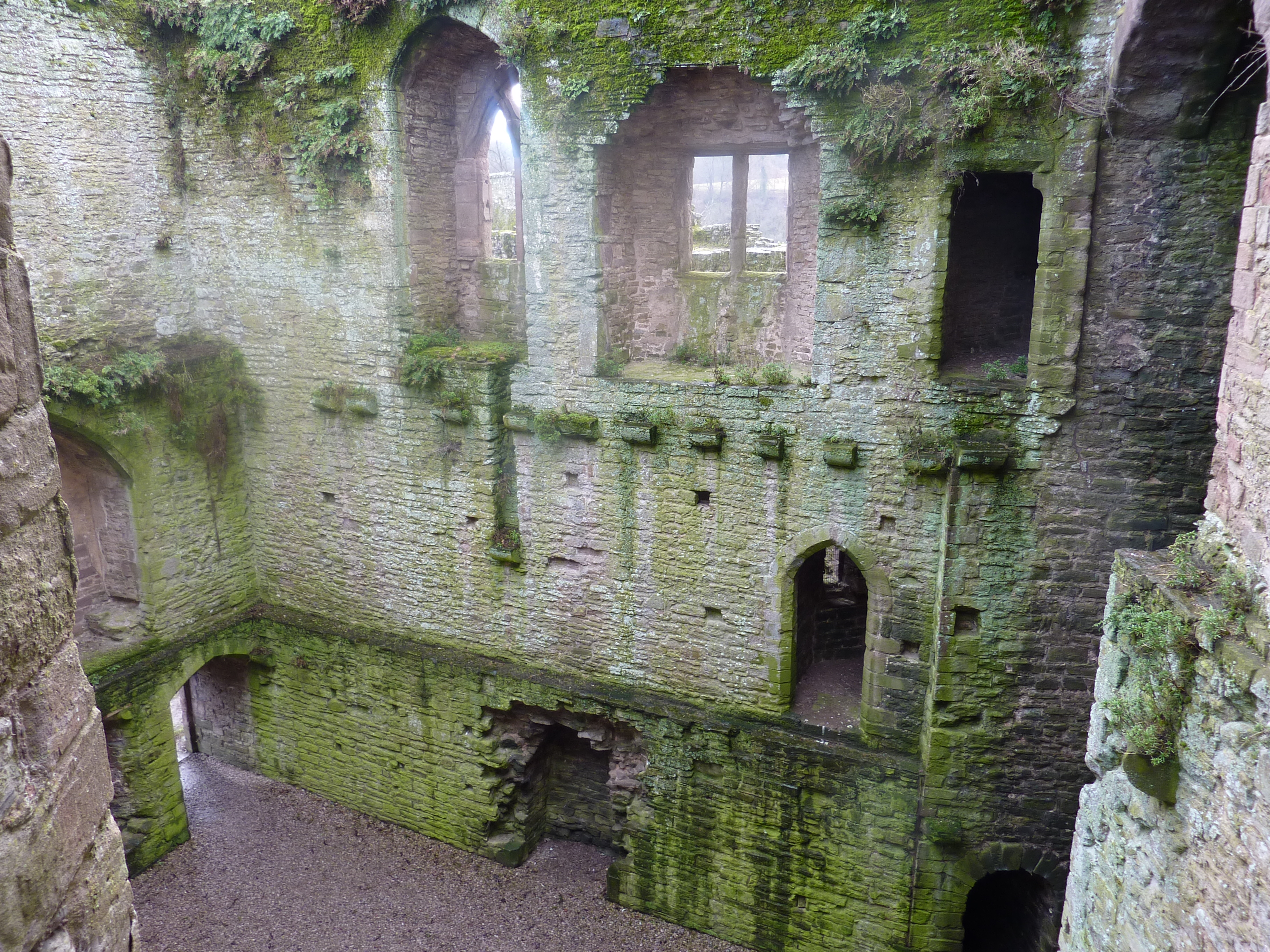 Ludlow Castle Shropshire England (13)